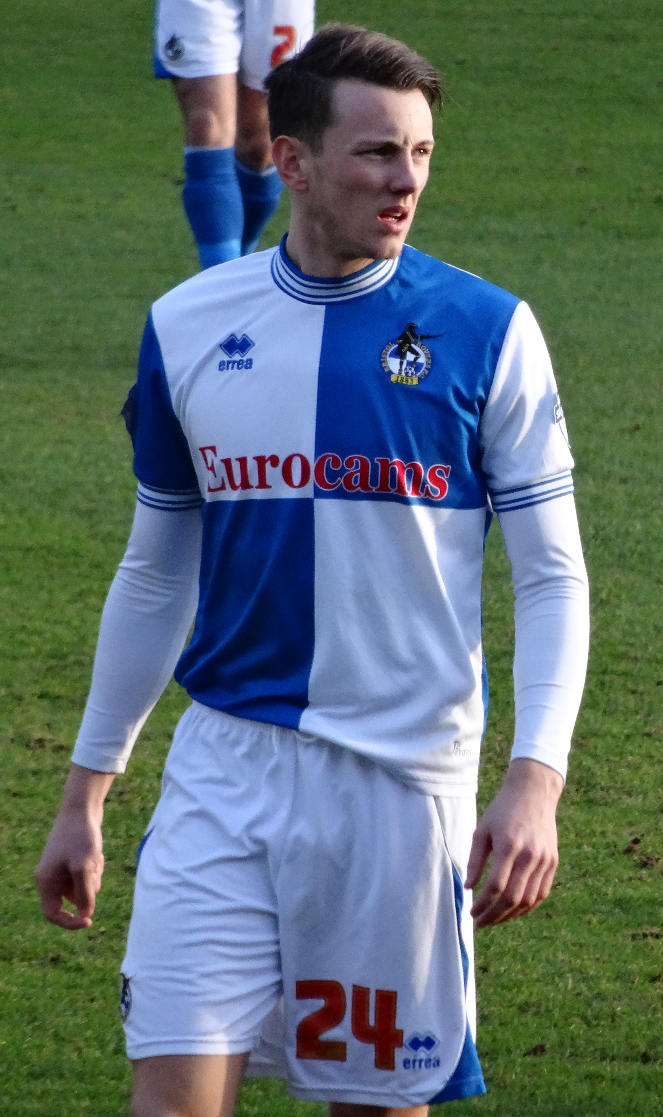 Ollie Clarke playing for Bristol Rovers against York City at Bootham Crescent, York on 18 January 2014